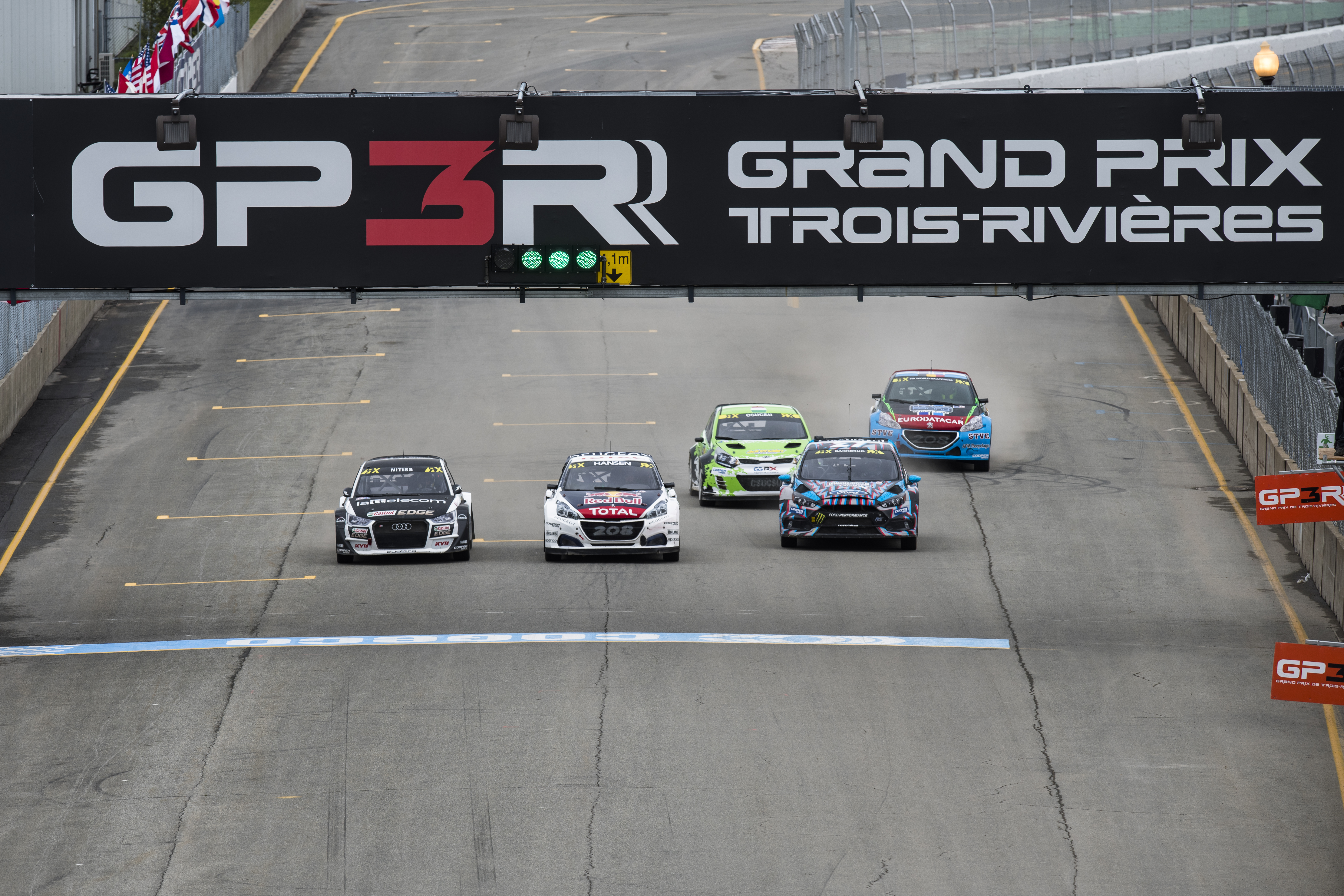 2017 FIA World Rallycross Championship // Round 08, Trois-Rivières // Credit: EKS/Jaanus Ree